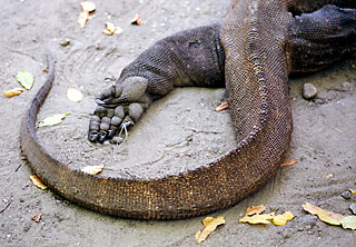 Commons:Category:Varanus komodoensis